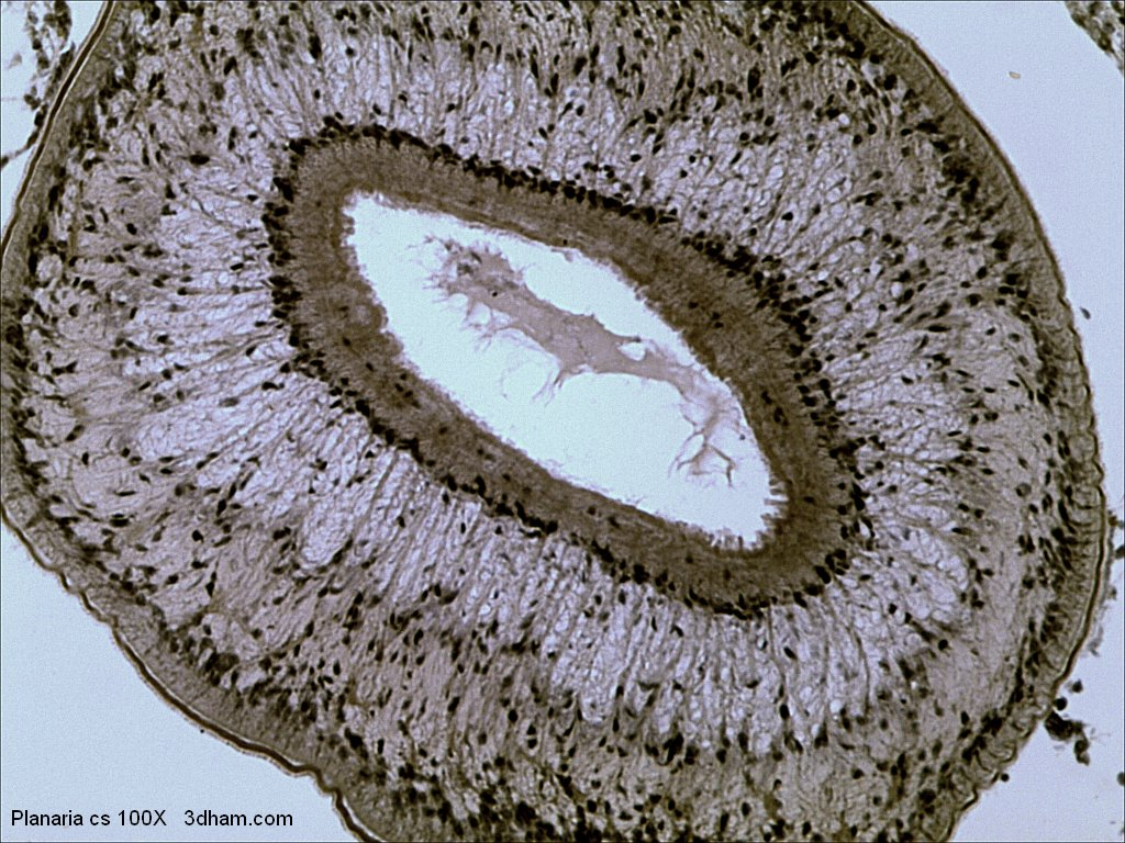 Planaria Cross Section Magnified 100 times